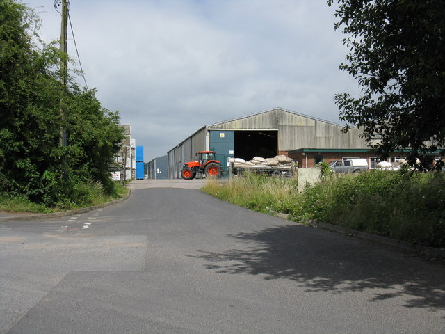 Bromyard - industrial unit on old railway formation This agricultural merchant's premises now occupy the land around the formation of the old Bromyard-Leominster railway line, just NW of Bromyard. The line was closed in 1952, but not finally lifted until 1958/59. A public road uses the old formation for a few hundred yards, serving a small industrial estate.